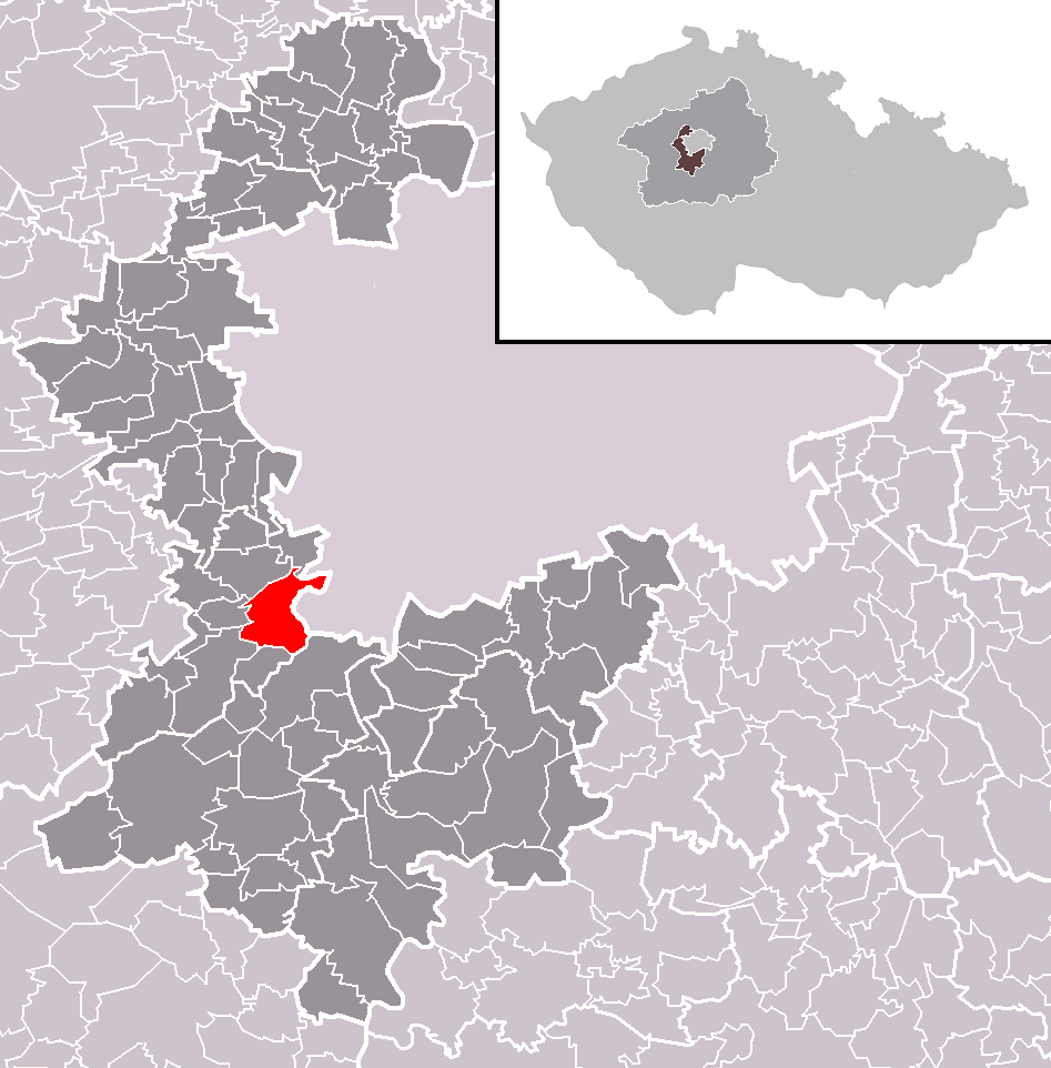 Location of Černošice town within Prague-West District and administrative area of Černošice as a Municipality with Extended Competence.